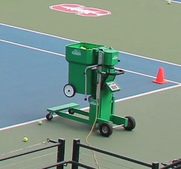 Tennis Ball Machine